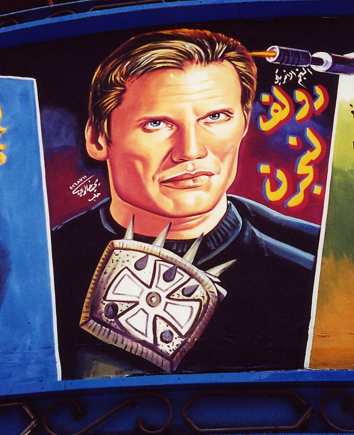 Swedish actor Dolph Lundgren, pictured outside a cinema in Damascus, Syria.